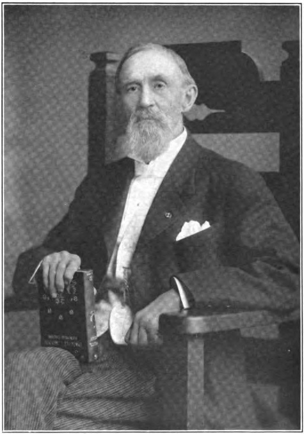 Ohio and Minnesota soldier and politician James H. Baker.